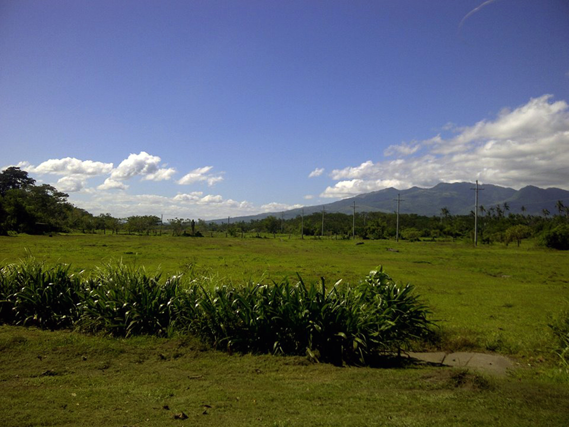 Mounts Banahaw–San Cristobal Protected Landscape is a protected landscape park in the Calabarzon region of the Philippines. It is the second largest protected area in Calabarzon. Uploaded as entry to Wiki Loves Earth (2018). Coordinates: 14°3′13″N 121°29′9″E